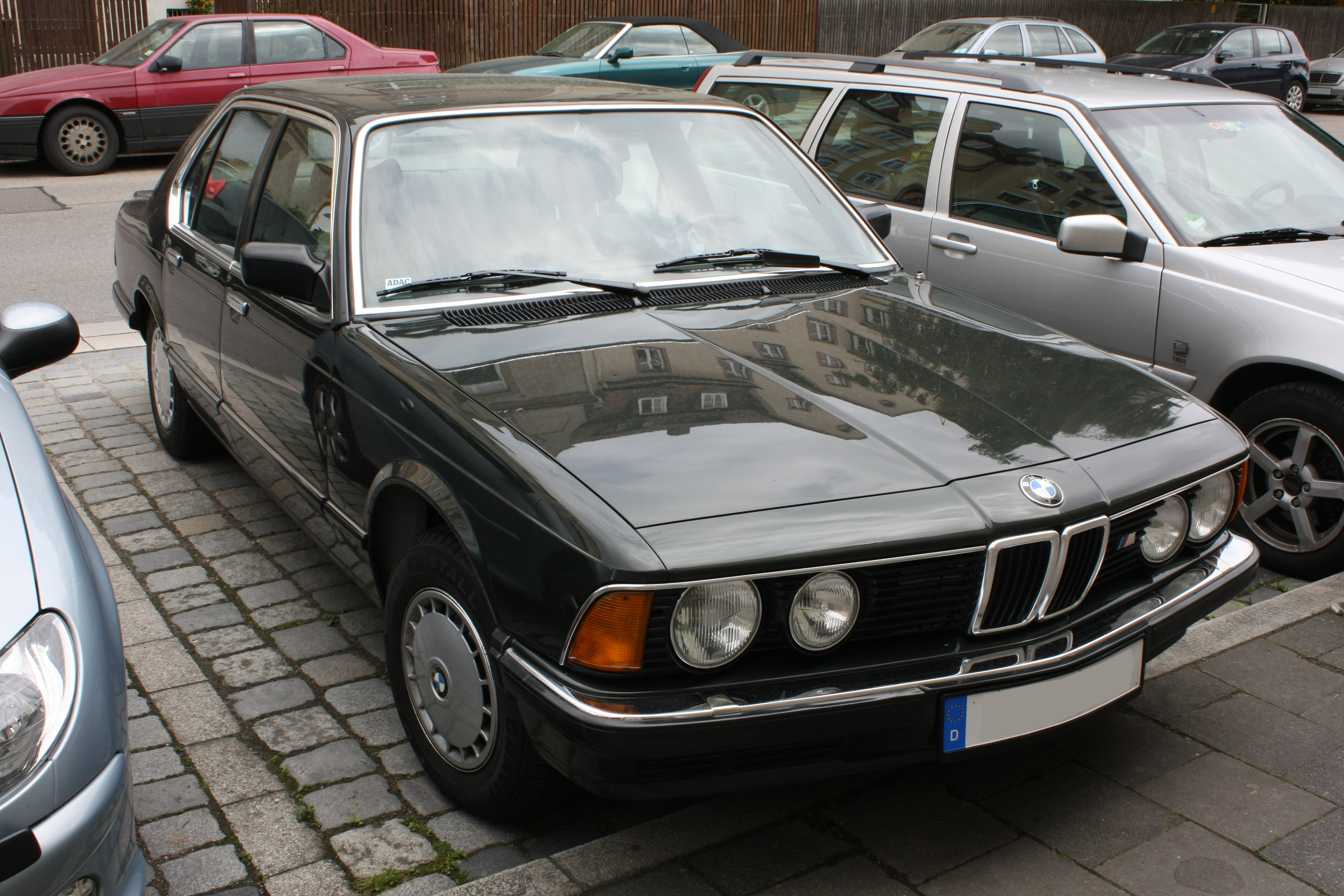 BMW E23 M